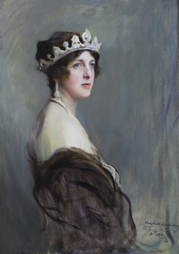 Edith Vane-Tempest-Stewart (née Chaplin), Marchioness of Londonderry (1878-1959)